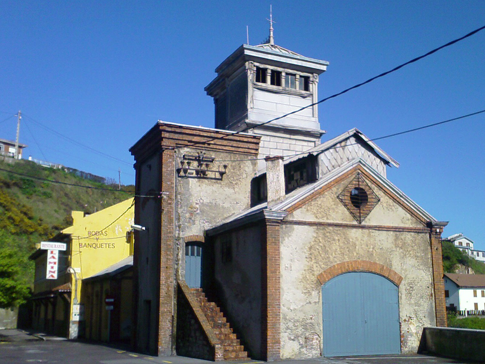 Hoist frame of the mine in Arnao (Castrillón), Asturias (Spain)